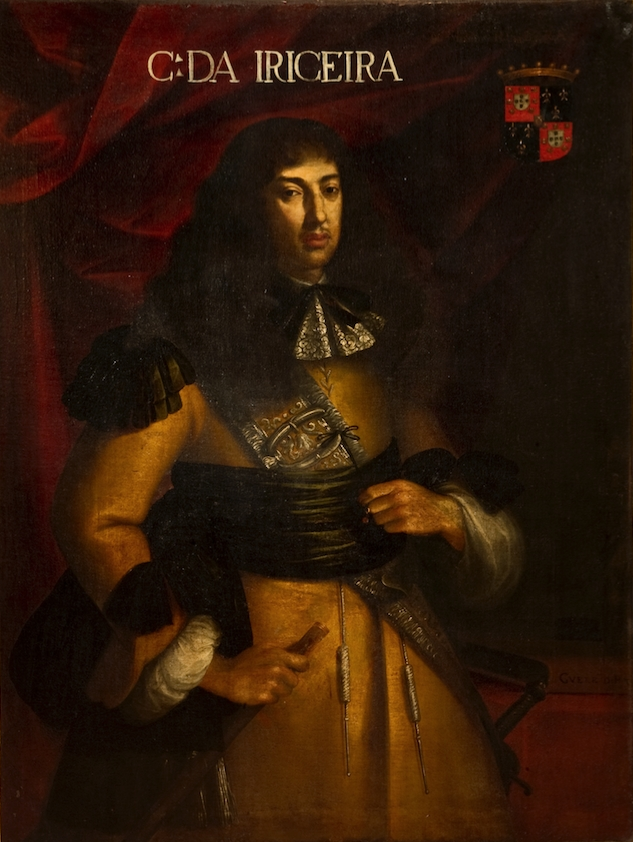 Portrait painting of D. Luís de Meneses, 3rd Count of Ericeira (1632-1690), painted 1673-1675 by Feliciano de Almeida. Currently at Galleria degli Uffizi, Florence, Italy.